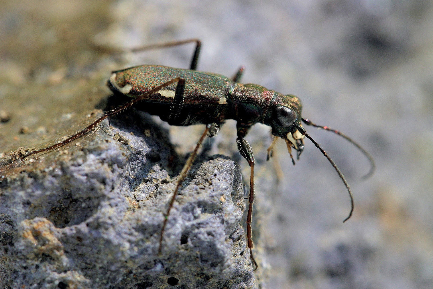 Cylindera germanica (Photo by Jinze Noordijk)